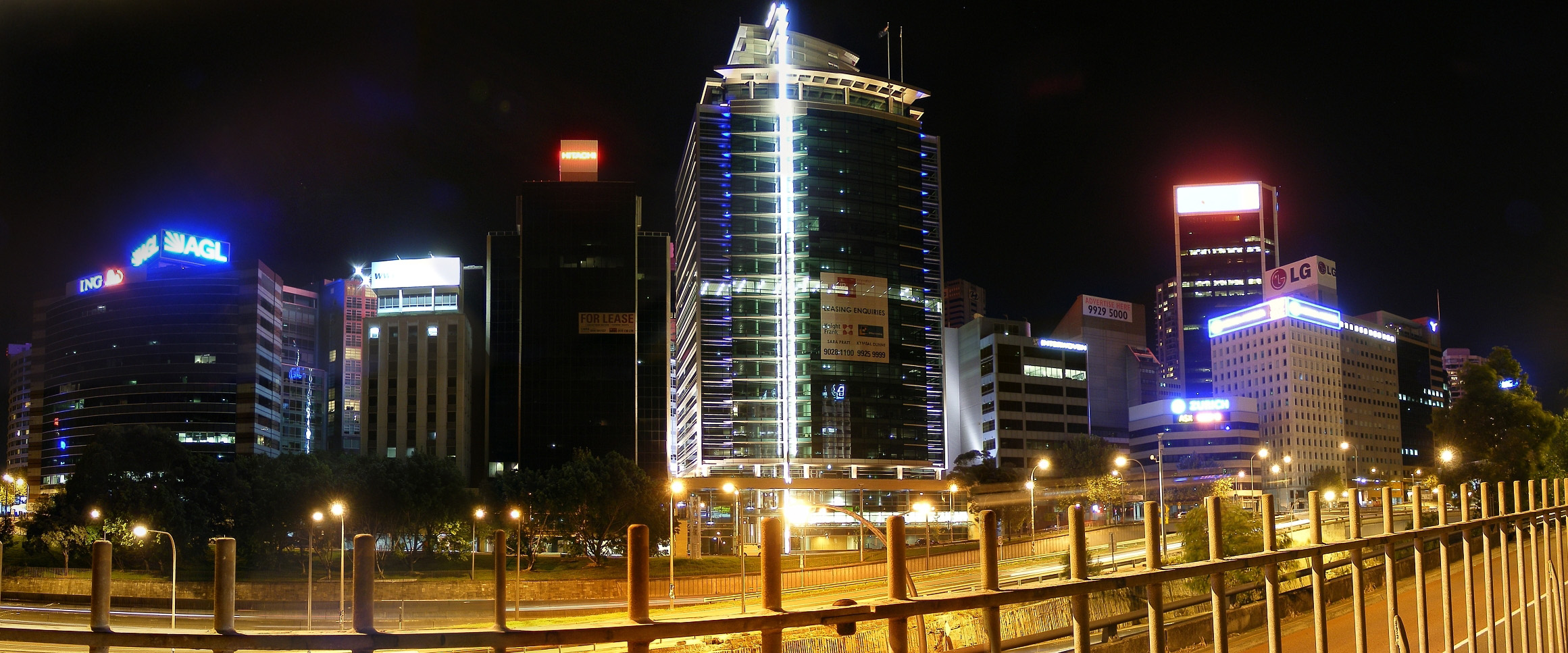 North Sydney, New South Wales